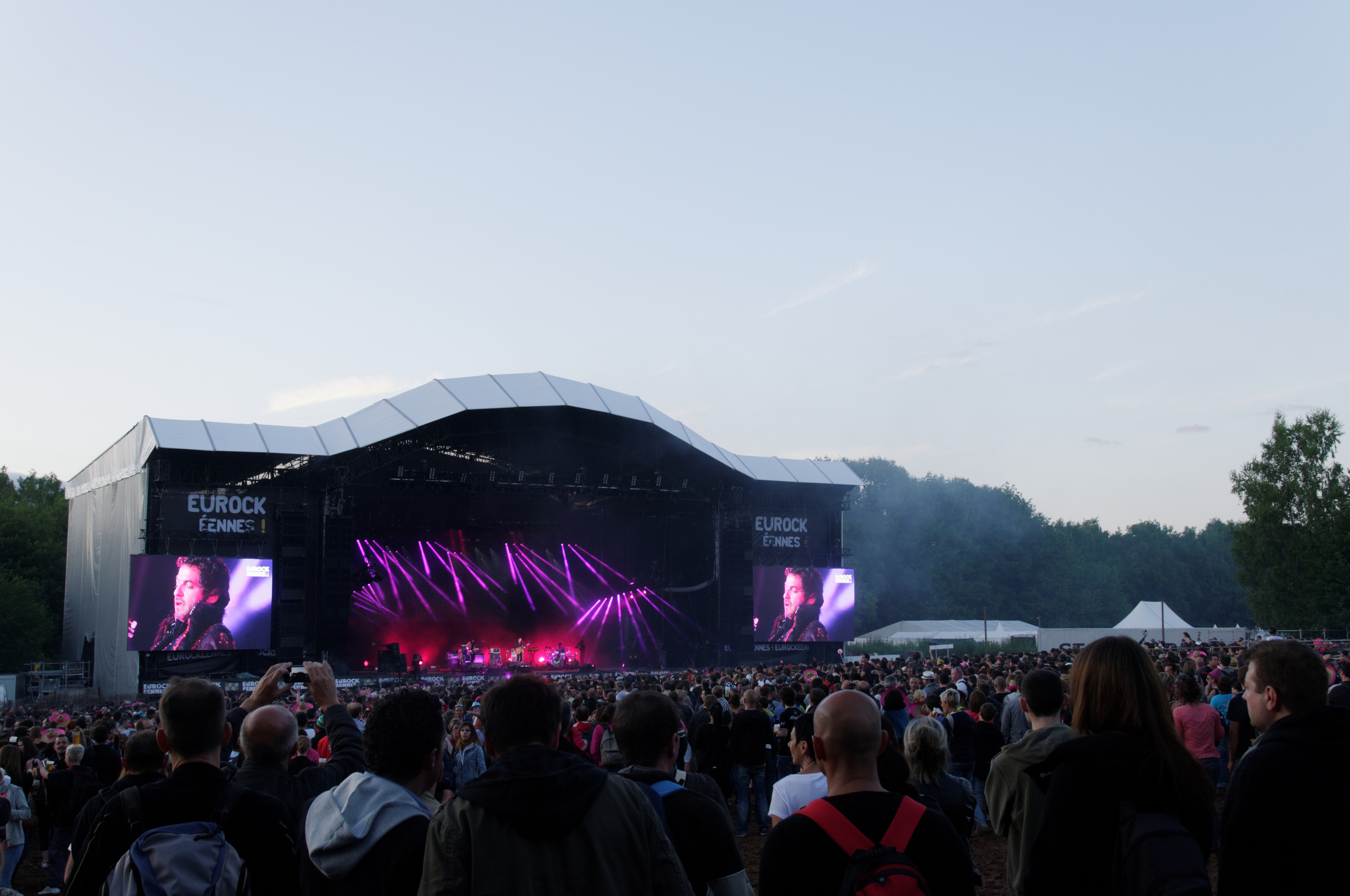 This photograph was taken with a Nikon D300 Personality rights warningAlthough this work is freely licensed or in the public domain, the person(s) shown may have rights that legally restrict certain re-uses unless those depicted consent to such uses. In these cases, a model release or other evidence of consent could protect you from infringement claims.